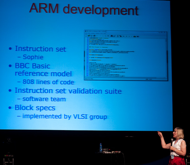 Sophie Wilson presenting the early development steps of the ARM processor at the 2009 Alternative Party in Helsinki, Finland.